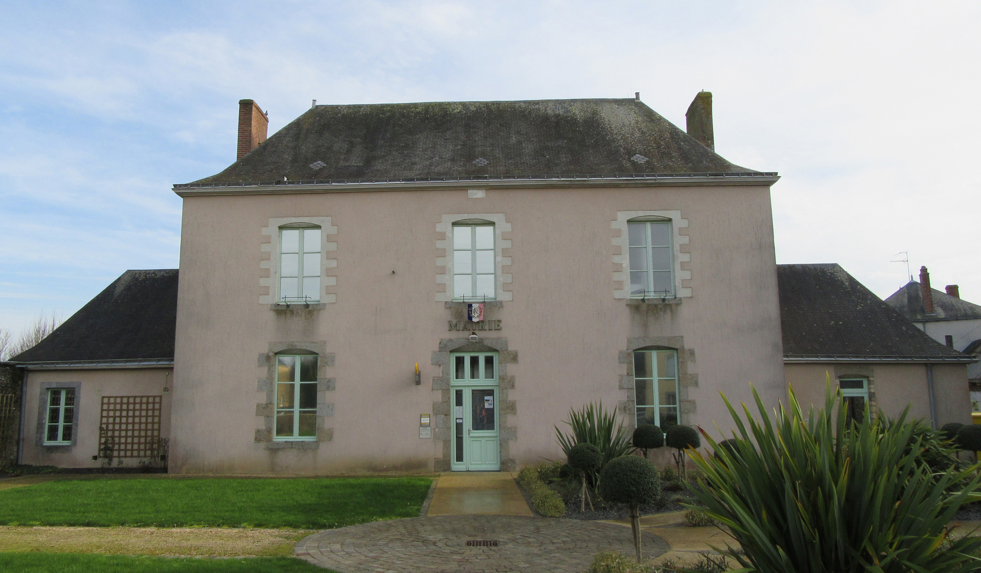 Town Hall of Bazougers, Mayenne, France.